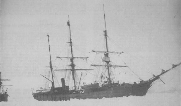 The United States Navy steamers USS Thetis (1881) (center) and USS Bear (1874) (left) in ice during their search for the Greely Expedition